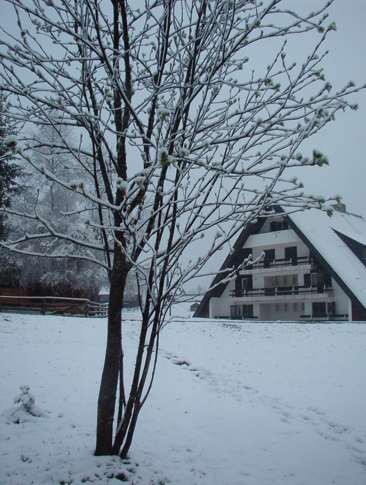 Mitrovac in winter, Serbia